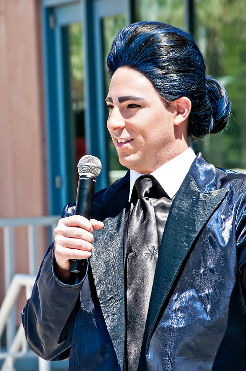 Geek Fashion Show at the 2013 Big Wow! ComicFest in San Jose, California.